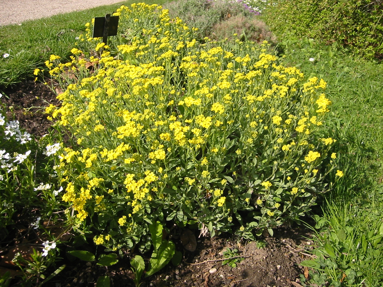 Image:Alyssum_saxatile/Botanical Garden, Vienna, Austria